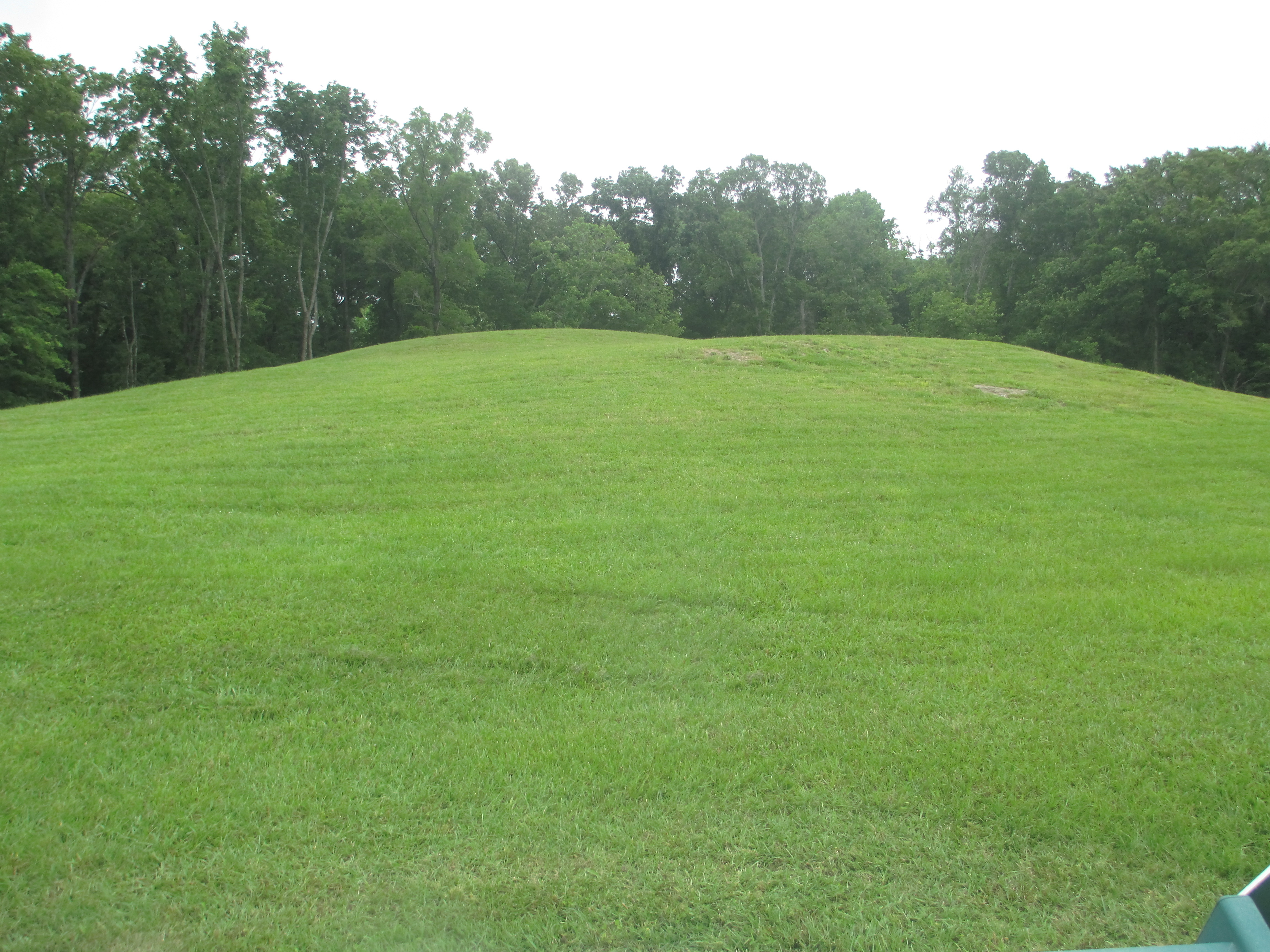 I took photo of Mound B at Poverty Point with Canon camera.